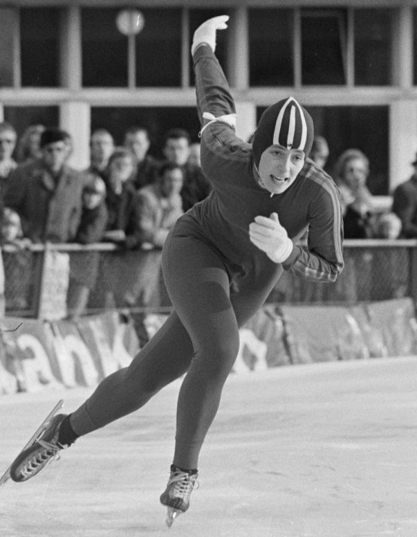 Nederlandse kampioenschappen schaatsen in Groningen; Sijtje van de Lende in aktie (kampioen)